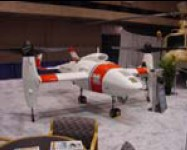 Bell’s Eagle Eye painted in Coast Guard markings at the Helicopter Association International Heli-Expo in Dallas, Texas